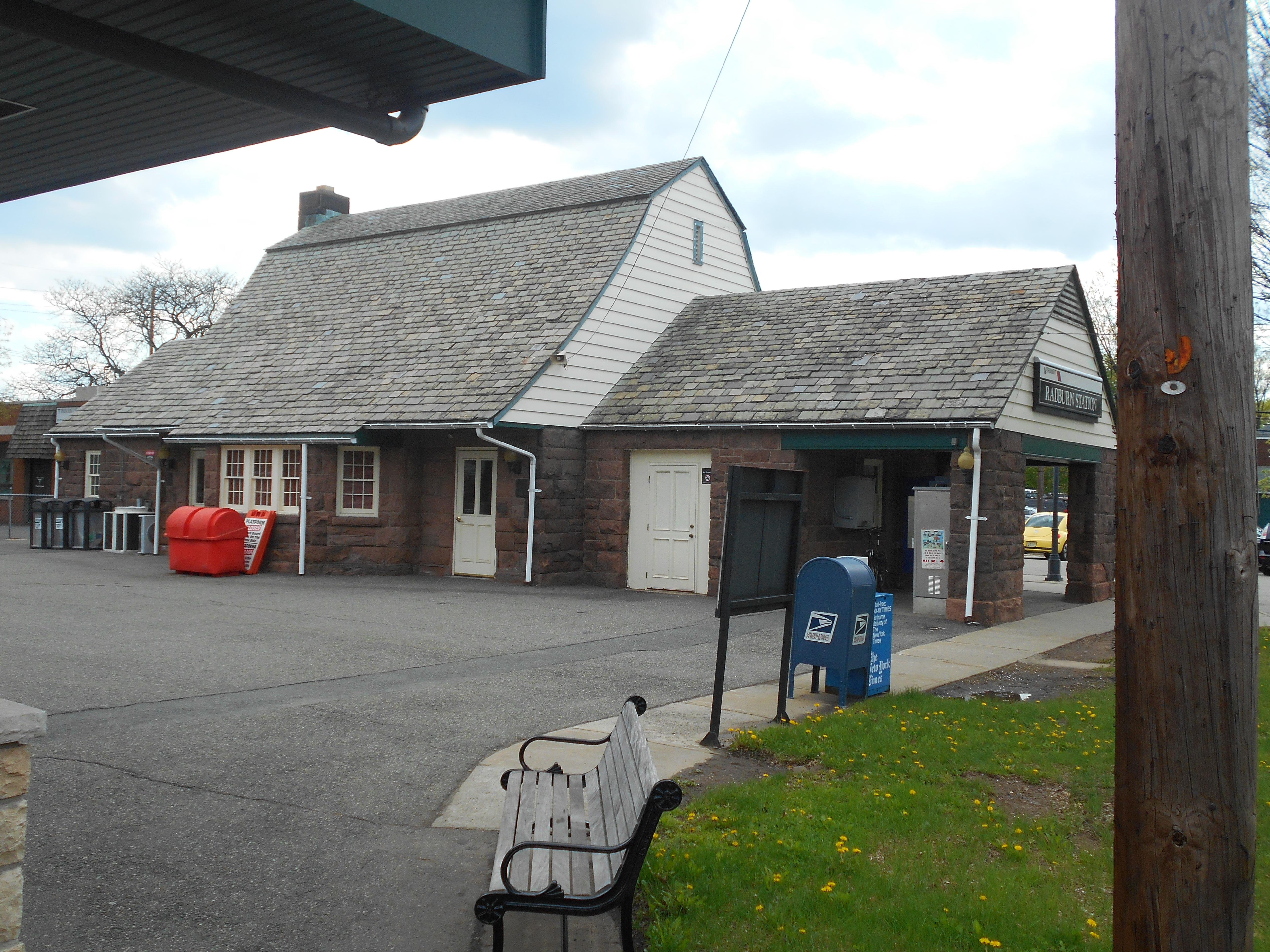 Radburn station in Fair Lawn, New Jersey in May 2014.